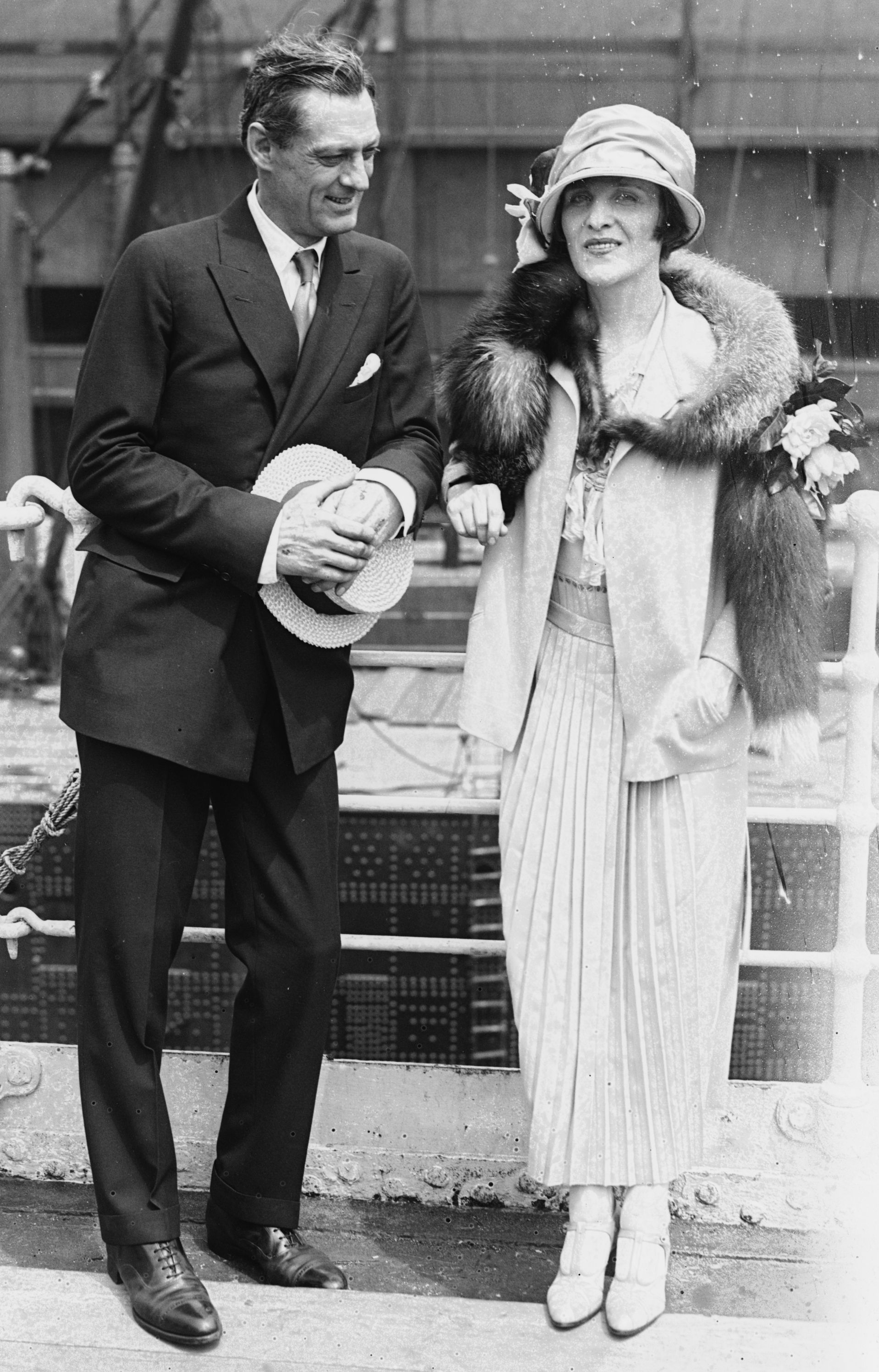 American actors Lionel Barrymore (1878-1954) and Irene Fenwick (1887-1936)